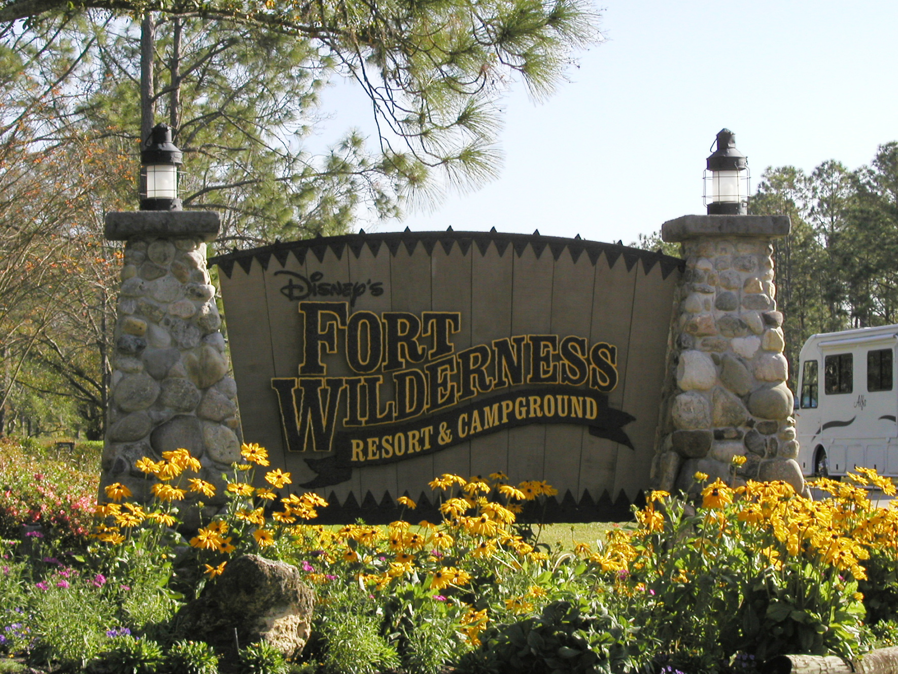 The sign for (and logo of) Disney's Fort Wilderness Resort and Campground in Walt Disney World.